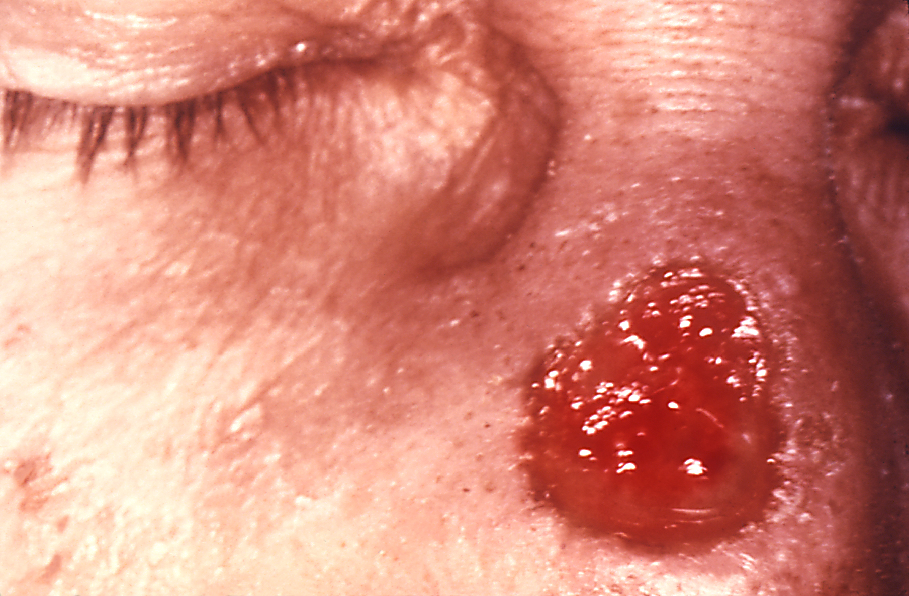 This patient presented with a gumma of nose due to a long standing tertiary syphilitic Treponema pallidum infection. Without treatment, an infected person still has syphilis even though there are no signs or symptoms. It remains in the body, and it may begin to damage the internal organs, including the brain, nerves, eyes, heart, blood vessels, liver, bones, and joints.